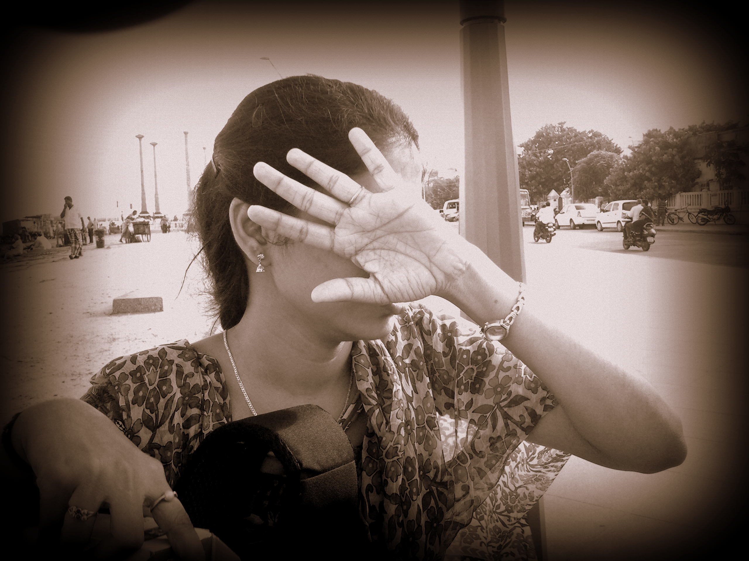 Picture depicting the Shyness of Tamil ANGEL